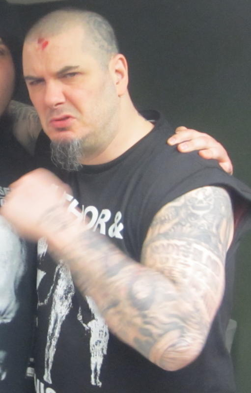 Nickelsack Jack and Philip H. Anselmo Backstage at Pop's Concert Venue in Sauget, Illinois 1-14-2014 Technicians of Distortion Tour Part 2 Brought to you by Housecore Records